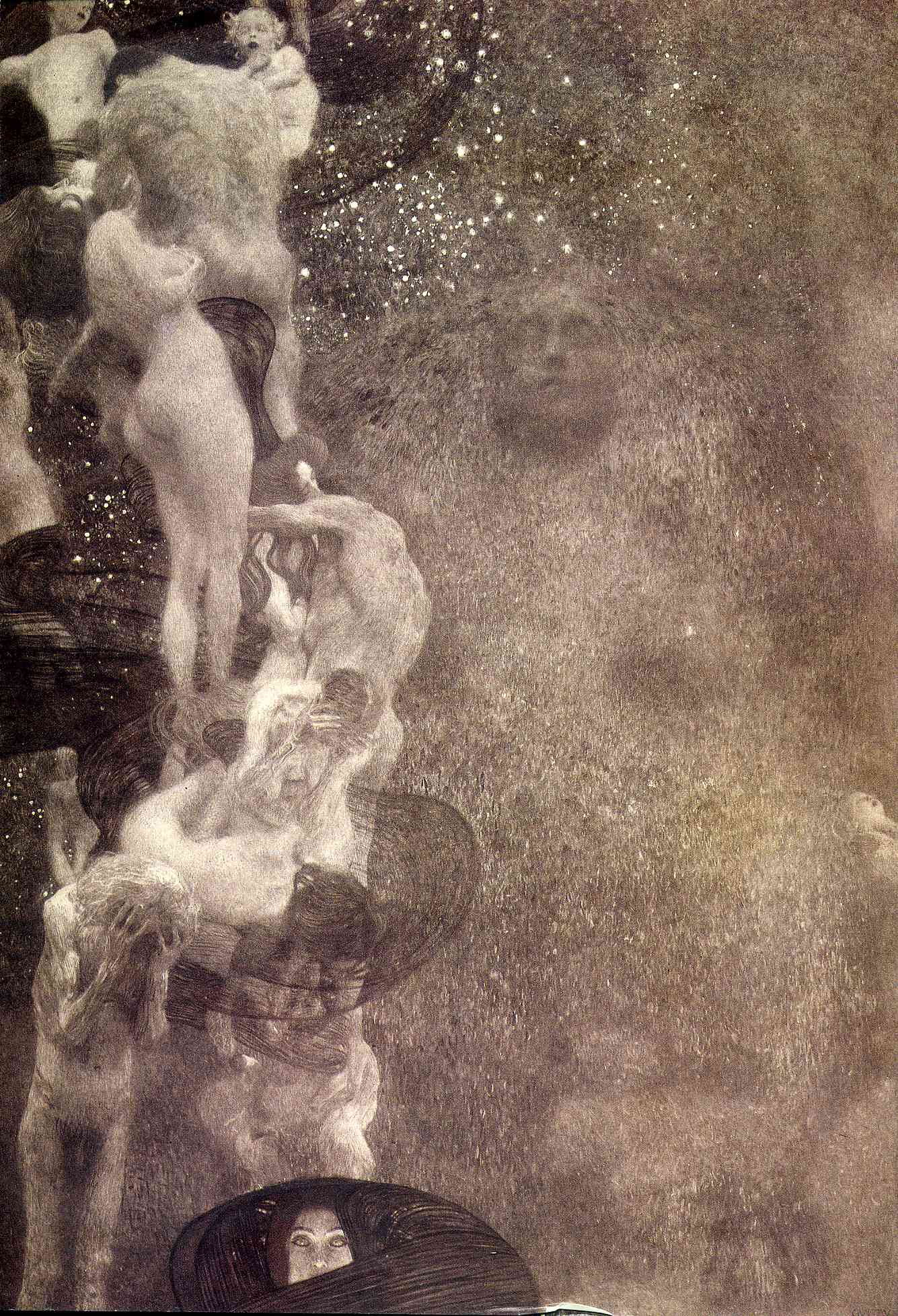 Destroyed Klimt painting